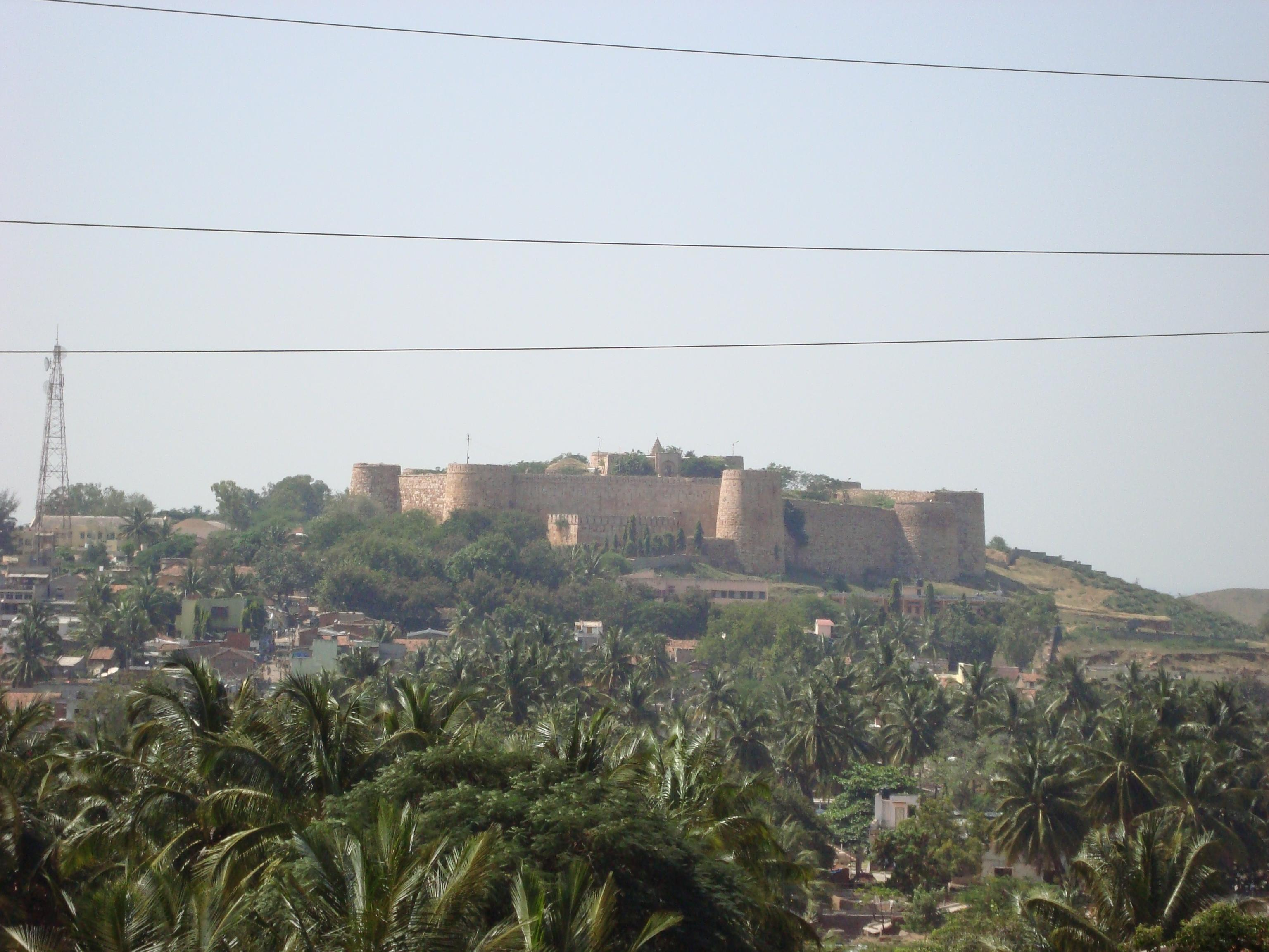 Saundatti Fort Source and Author : Manjunath Doddamani, Gajendragad / Hubli, Karnataka(North), India.